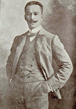 Hamit Husnu Kayacan (1868, İstanbul - 1952, İstanbul)